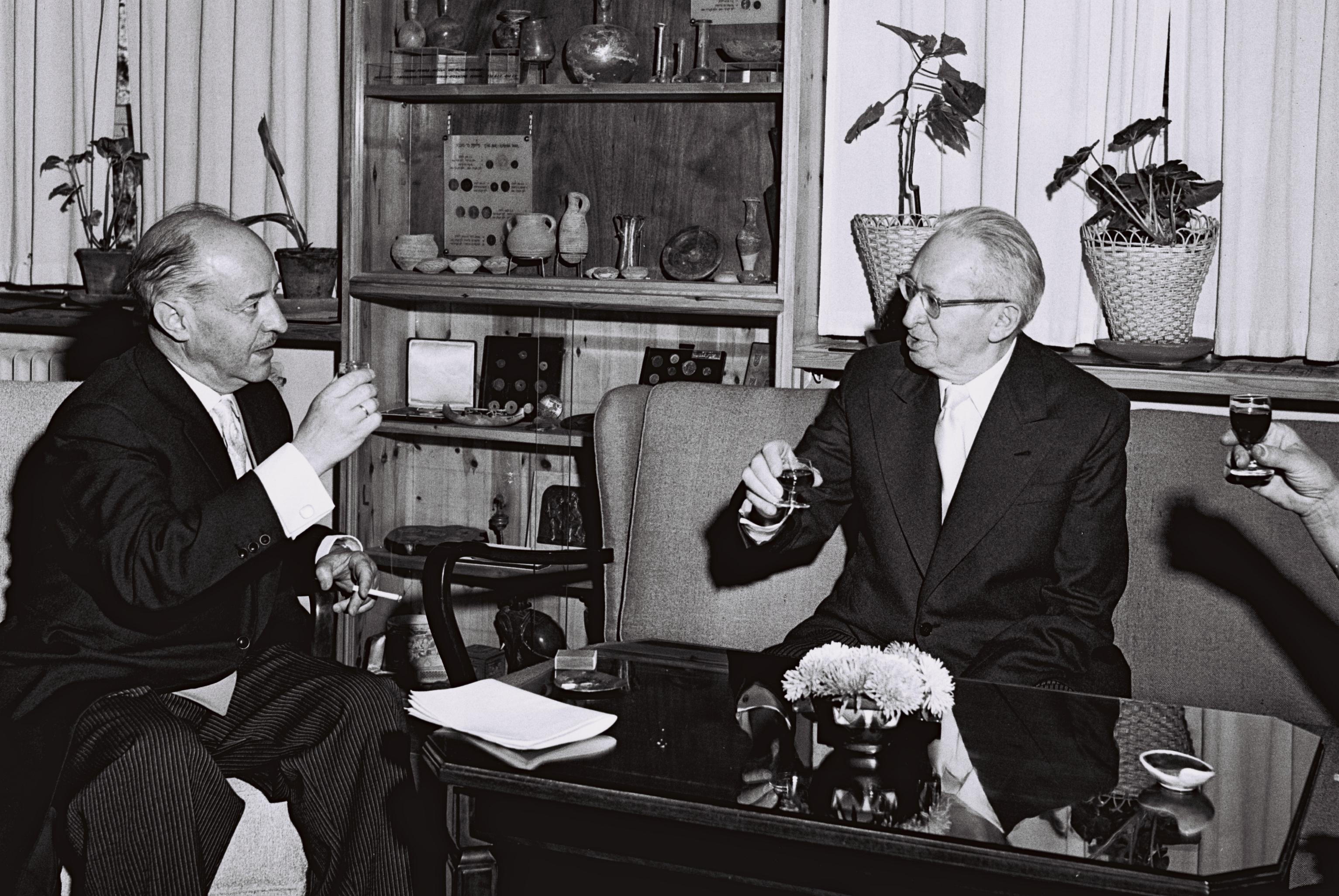 Ambassador Jorge Daesslé Segura With Israel President Yitzhak Ben-Zvi